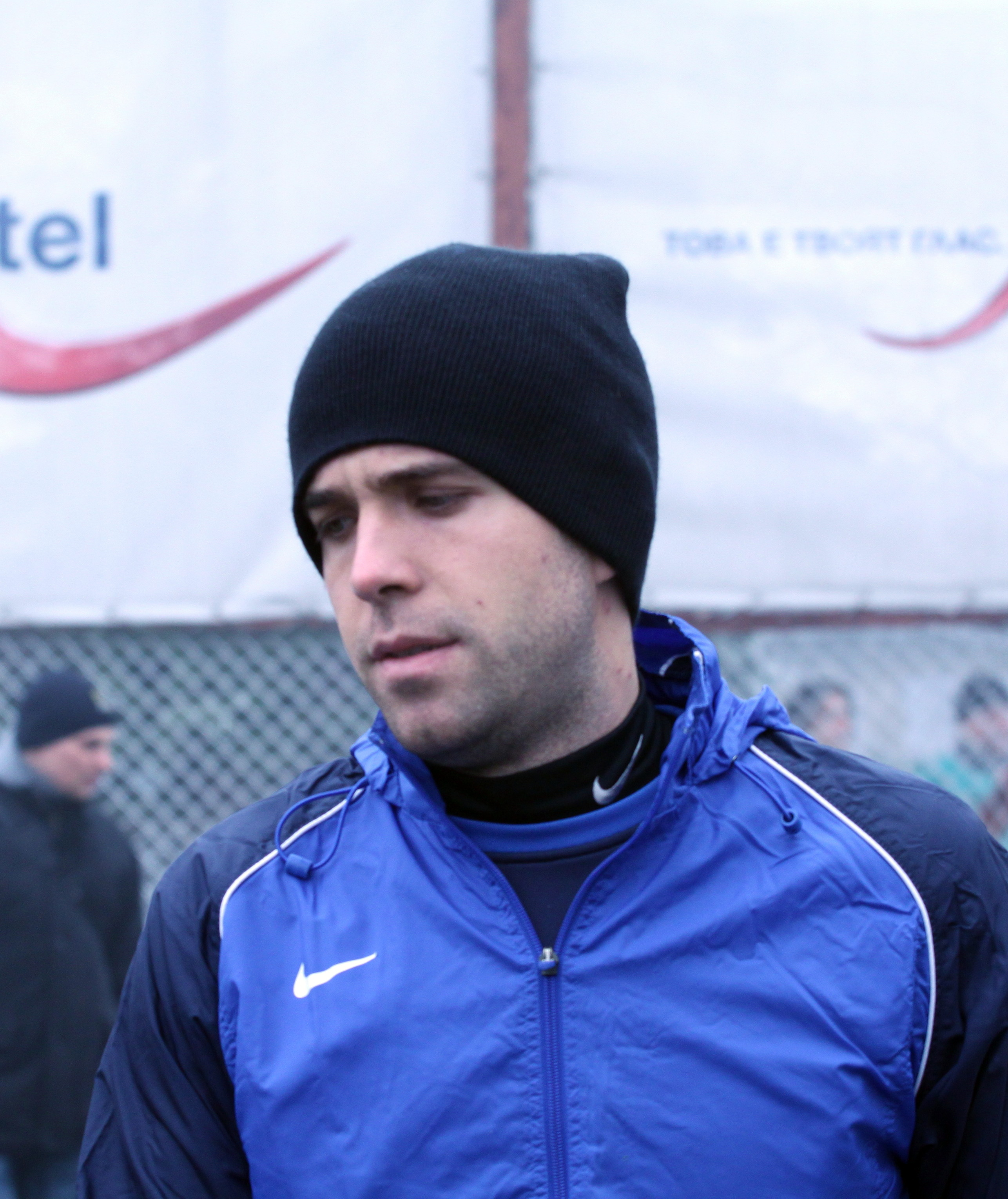 Miroslav Antonov (Bulgarian: Мирослав Антонов) (born on 10 March 1986) is a Bulgarian footballer currently playing for Montana as a forward, loaned by Levski Sofia.